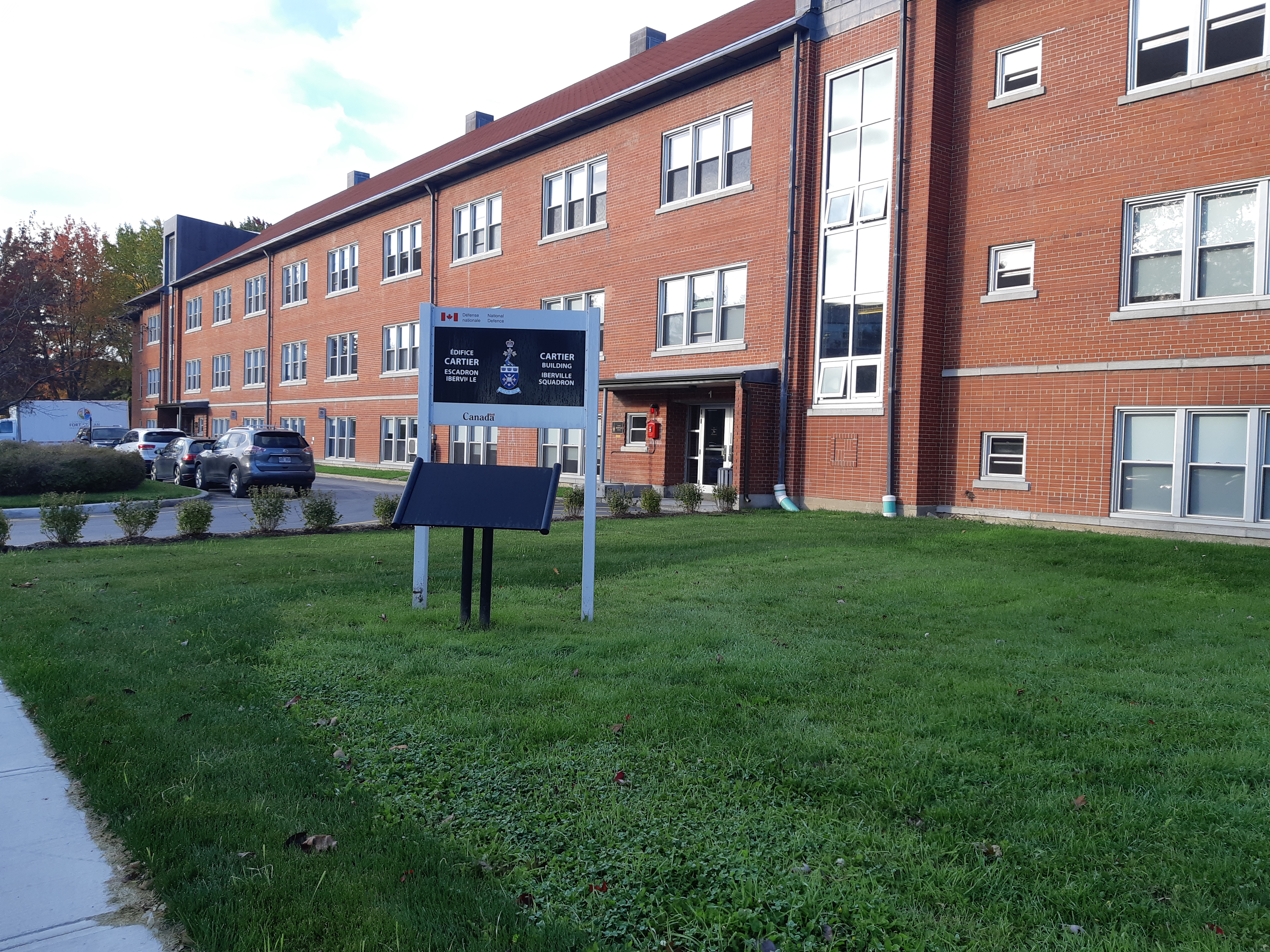 Cartier Building RMCSJ